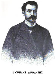 Poikilē stoa: ethnikē eikonographēnenē epetēris ... Etos 1-16, 1881-1914 (1894) Author: Ioannes A. Arsenēs , Michael A . Raphaelobits Volume: 10 Publisher: Estia Year: 1894 Possible copyright status: NOT_IN_COPYRIGHT Language: Greek Digitizing sponsor: Google Book from the collections of: Harvard University Collection: americana